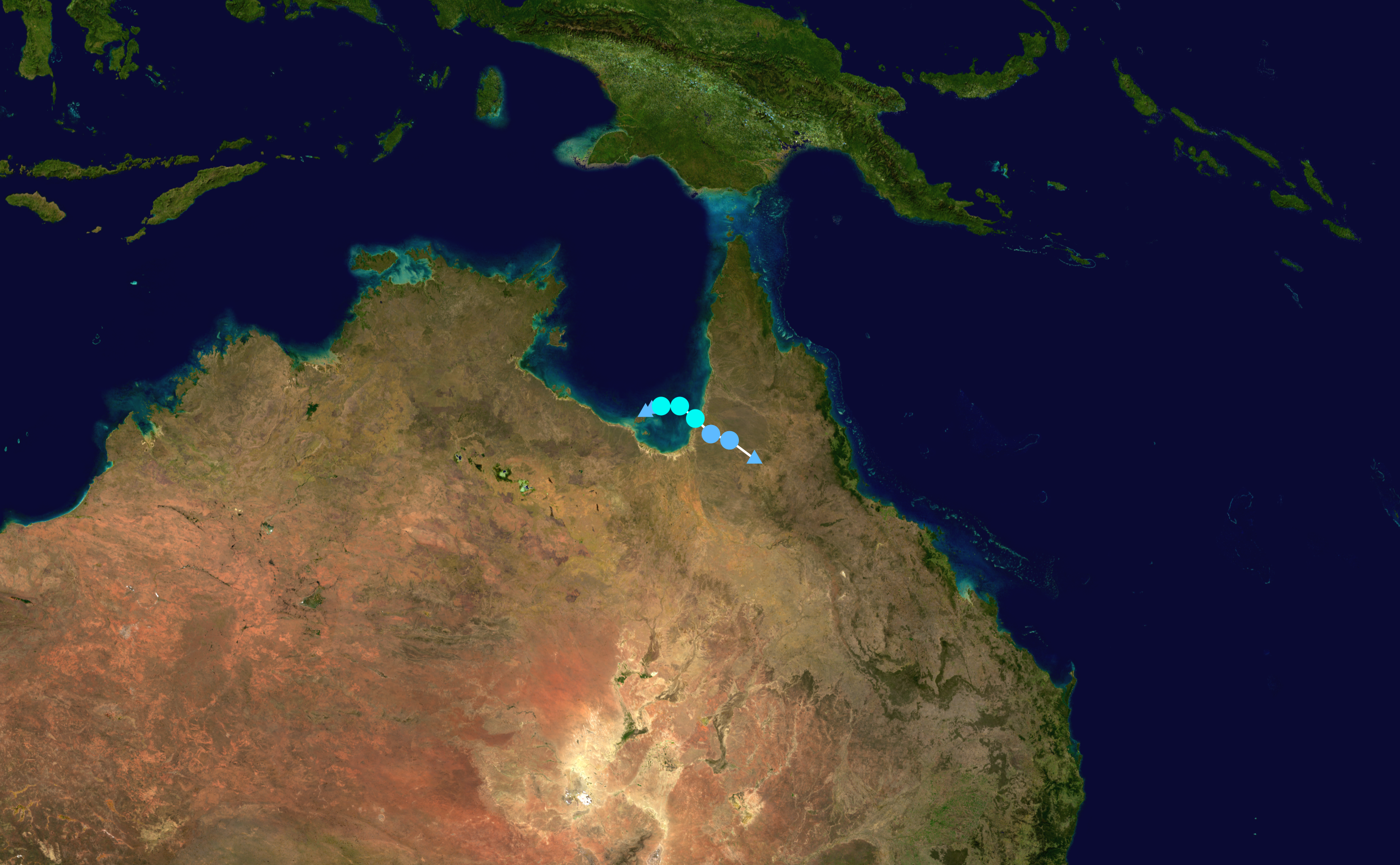 Track map of Tropical Cyclone Charlotte of the 2008-09 Australian region cyclone season. The points show the location of the storm at 6-hour intervals. The colour represents the storm's maximum sustained wind speeds as classified in the Saffir–Simpson scale (see below), and the shape of the data points represent the nature of the storm, according to the legend below. Saffir–Simpson scale Tropical depression≤38 mph≤62 km/h Category 3111–129 mph178–208 km/h Tropical storm39–73 mph63–118 km/h Category 4130–156 mph209–251 km/h Category 174–95 mph119–153 km/h Category 5≥157 mph≥252 km/h Category 296–110 mph154–177 km/h Unknown Storm type Tropical cyclone Subtropical cyclone Extratropical cyclone / Remnant low / Tropical disturbance / Monsoon depression